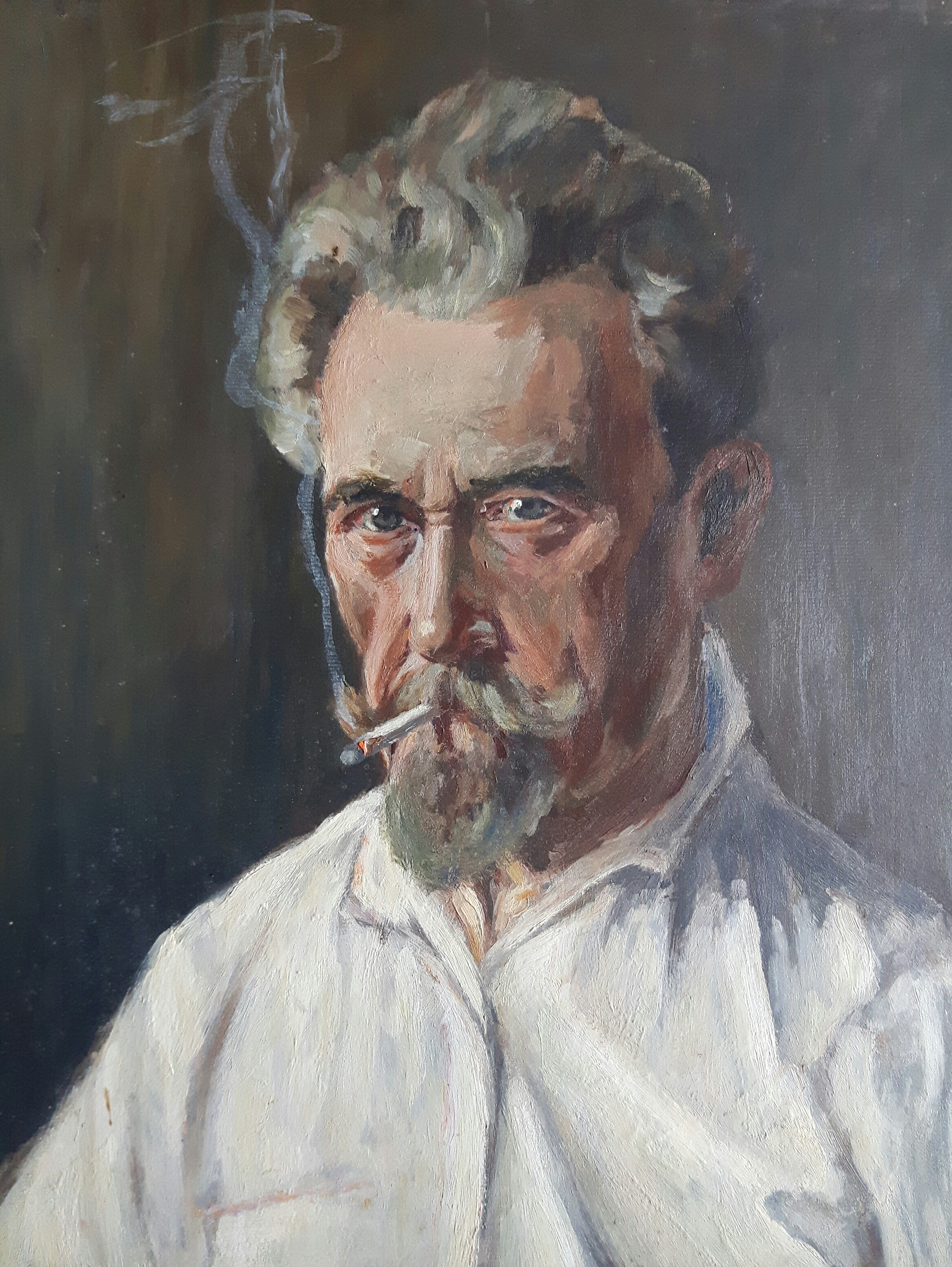 Henri Adé, self-portrait